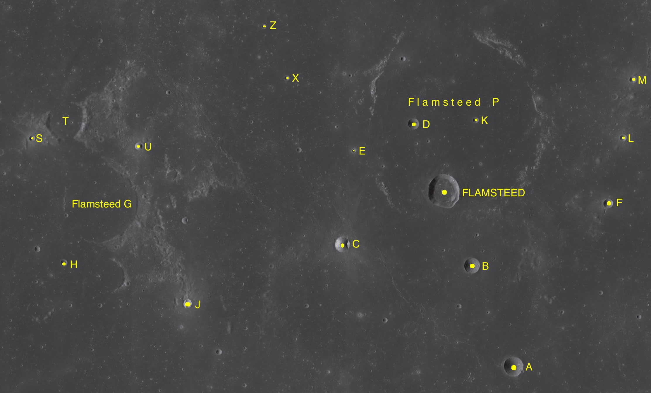 Parts of the charts LAC-74, LAC-75